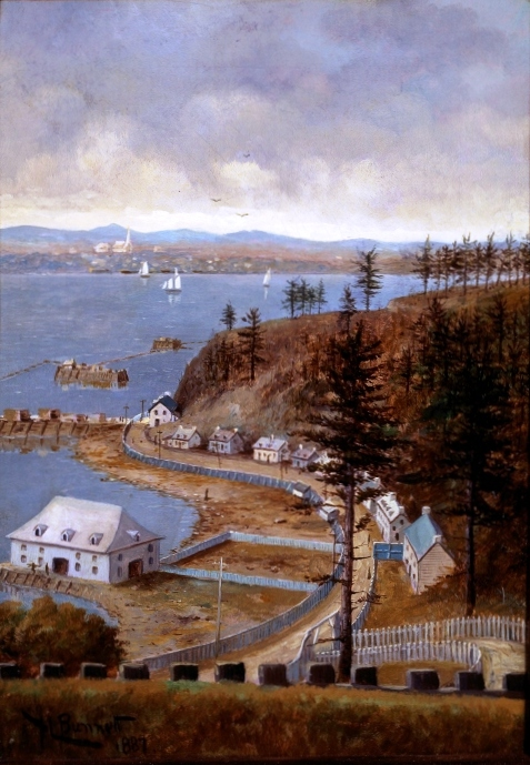 Painting, Wolfe's Cove, Quebec, Henry Richard S. Bunnett 1887, Oil on canvas, 36 x 26 cm